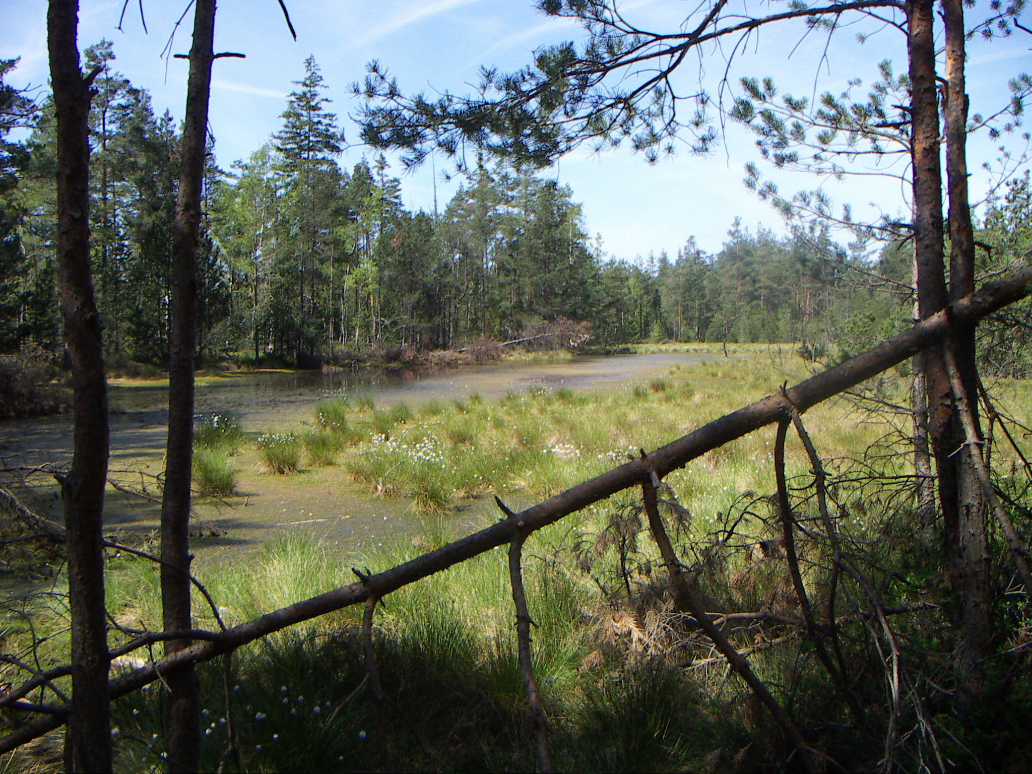 Lake in the Červené blato nature reserve, Czech Republic